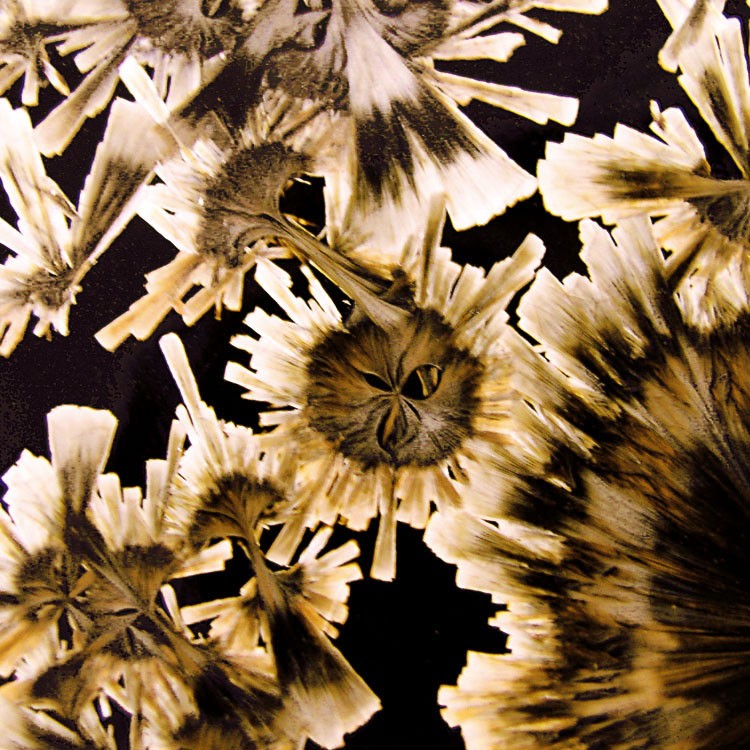 Details of crystals on a large dish by Bill Boyd, exhibited in GEES (Netherlands) in October 2009